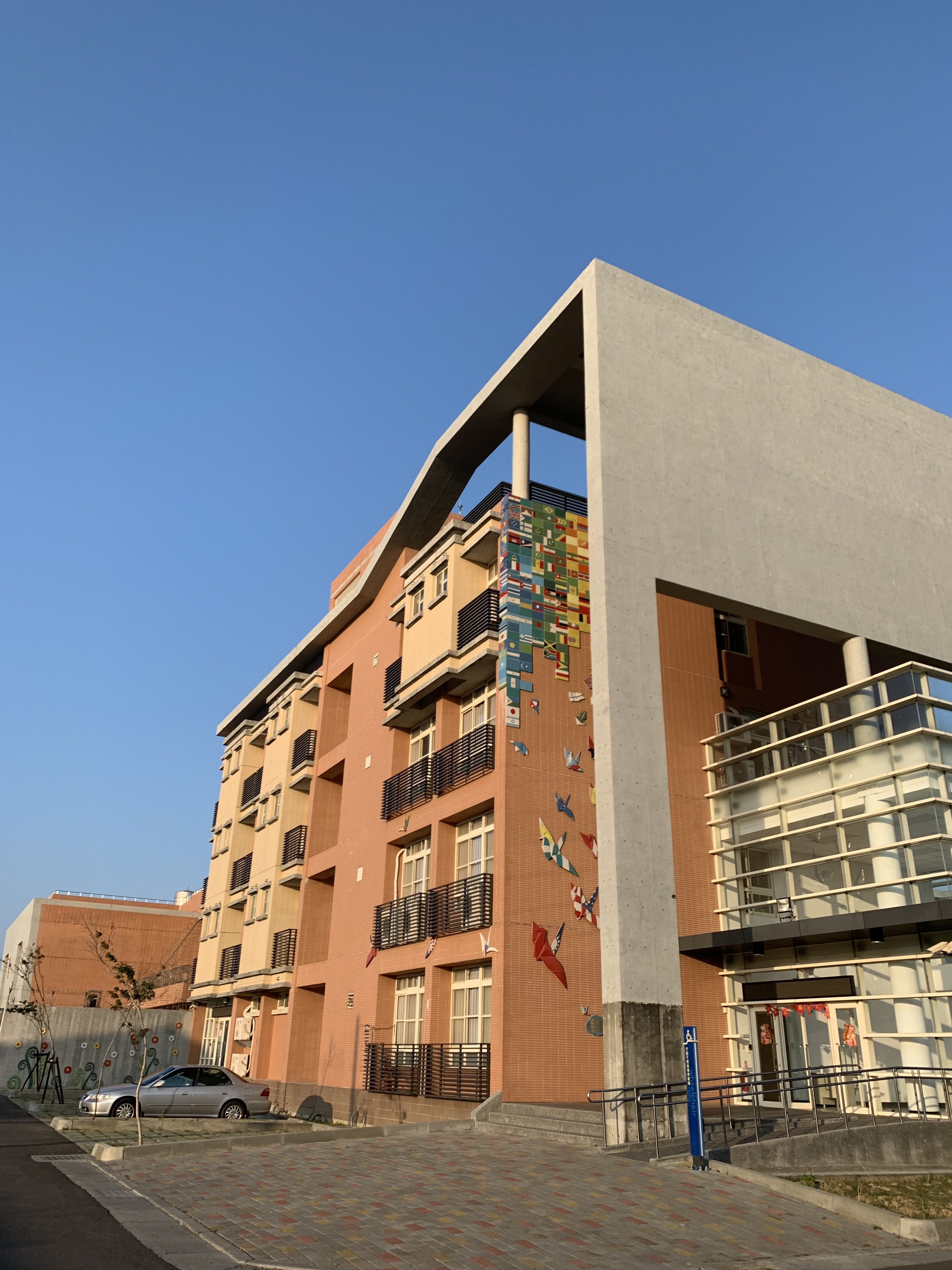 Shoot from entrance of Administrator Building of N.I.A. Kaohsiung Detention Center